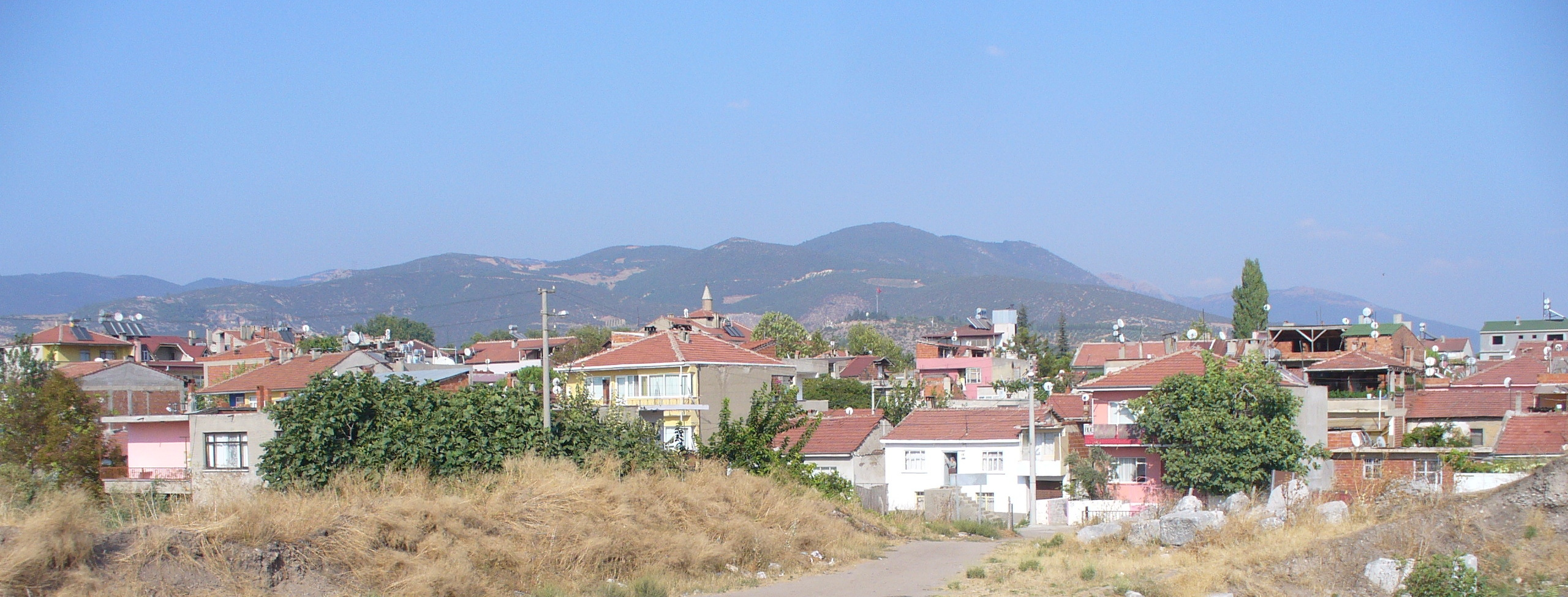 Panorama of Iznik, taken from the Roman theatre.